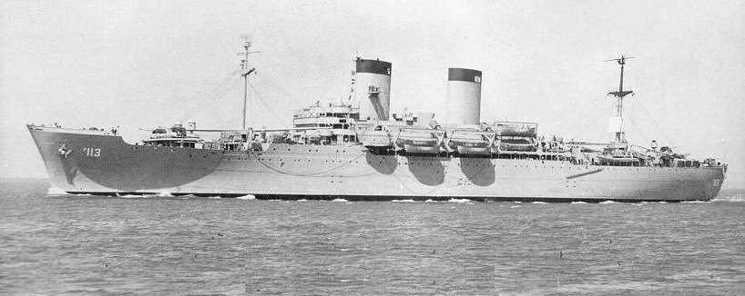 USS General H. W. Butner (AP-113) underway, date and location unknown.